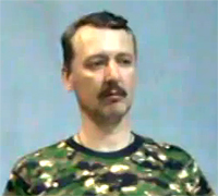 Igor Ivanovich Strelkov.